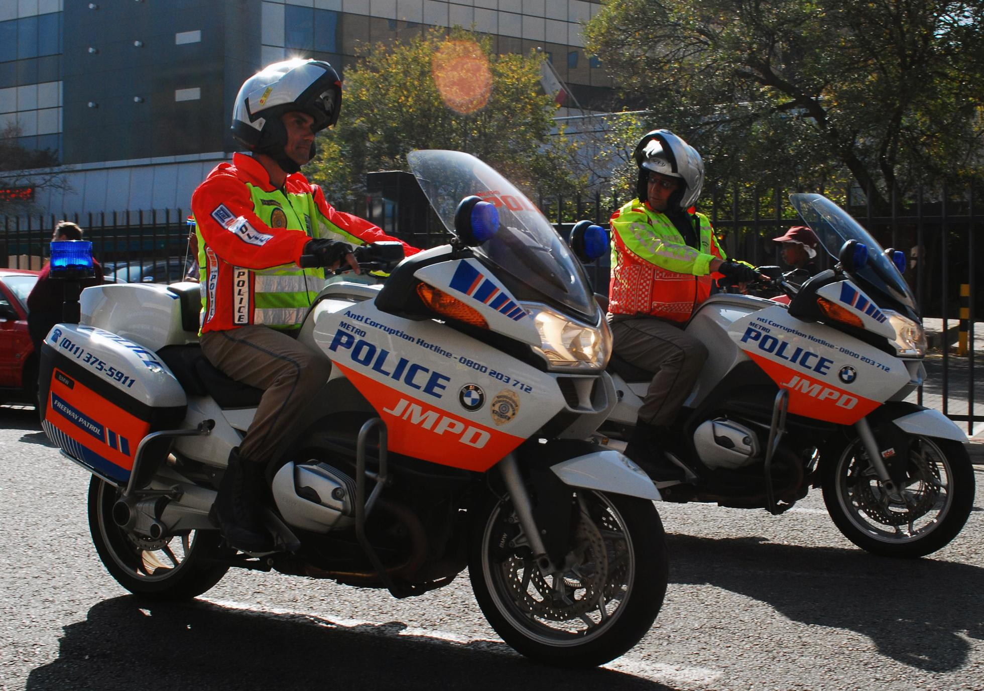 On 17 May 2010 the SAPS demonstrated along with Emergency Services how efficient they will be during the 2010 World Cup. Thousands of spectators joined the parade through the streets of Sandton.